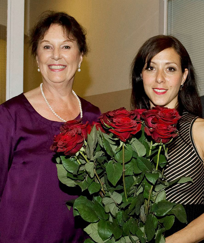 Mariane Orlando and Nicole Rhodes 2010